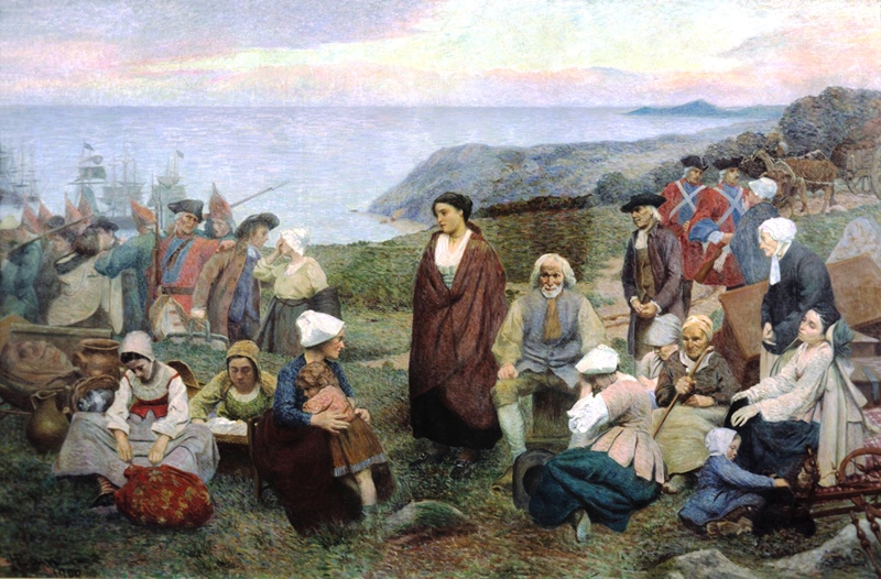 The Deportation of the Acadians, by Henri Beau (1863-1949).